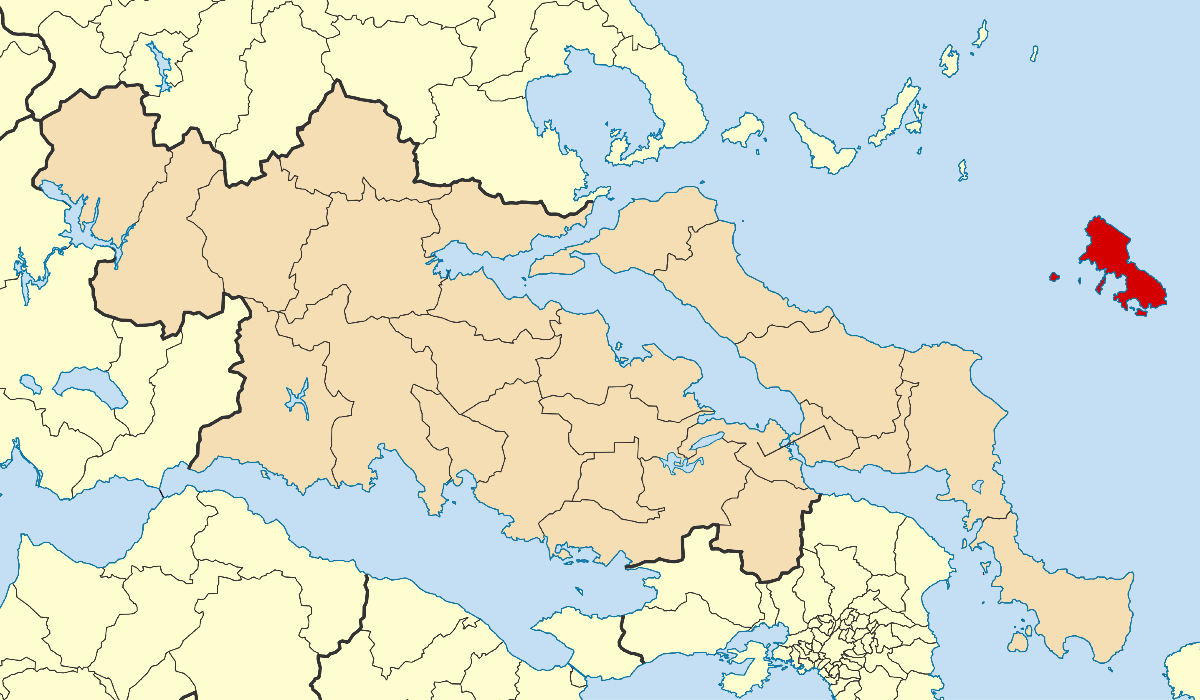 Locator map for Skyros municipality in Greek region Central Greece (2011)